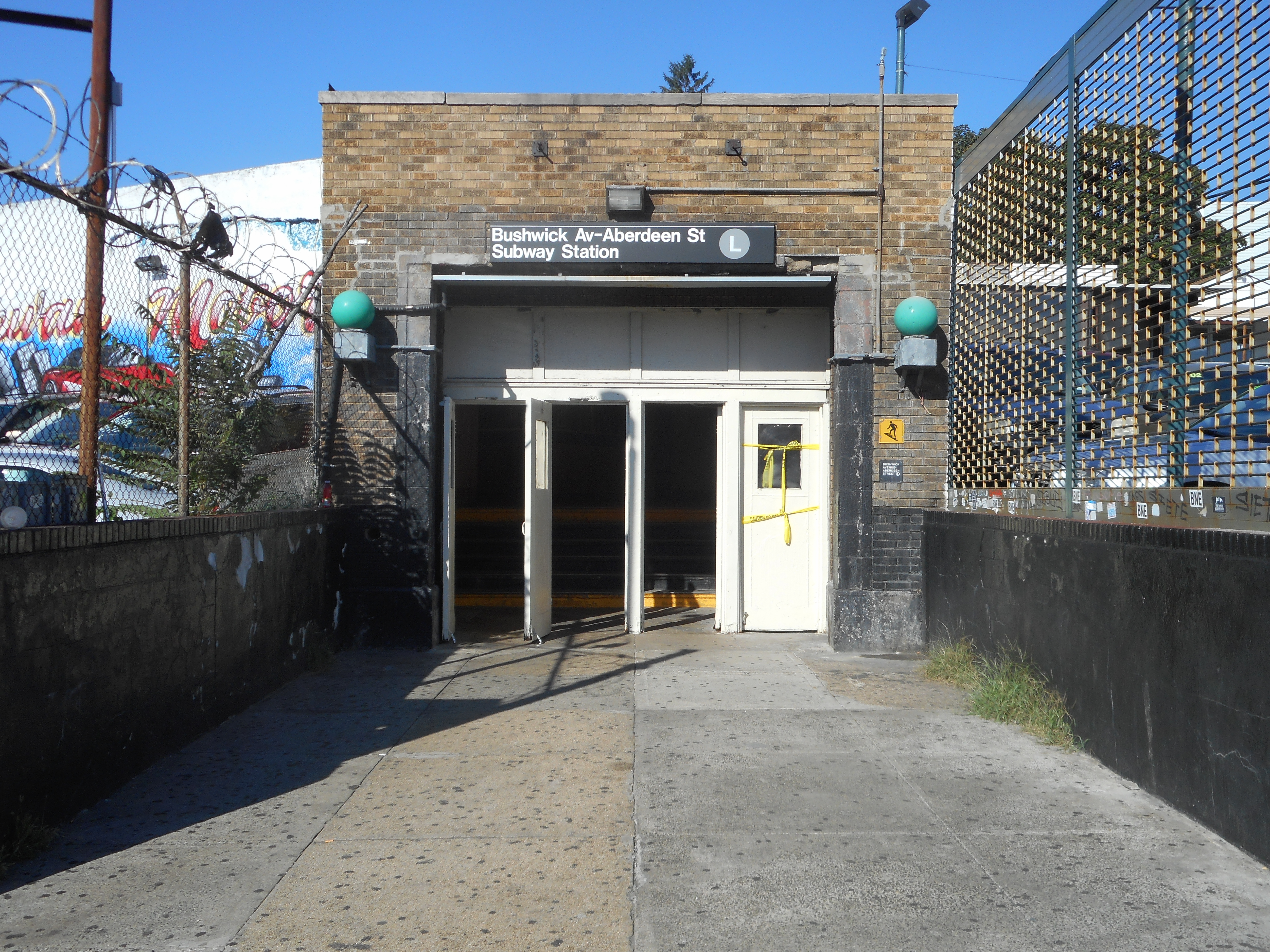 The station entrance between two used car lots on Bushwick Avenue at the Bushwick Avenue-Aberdeen Street Subway station on the BMT Canarsie Line in the Bushwick section of Brooklyn, New York City